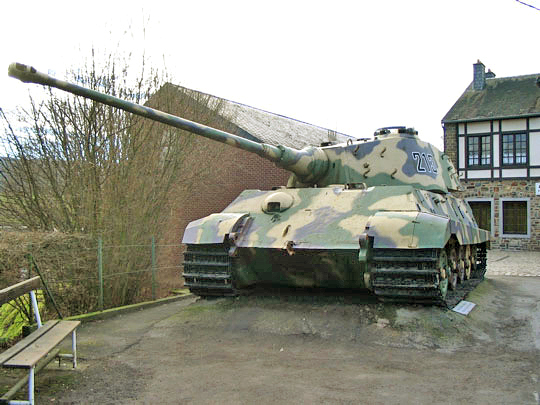 Tiger II in La Gleize, Belgium.